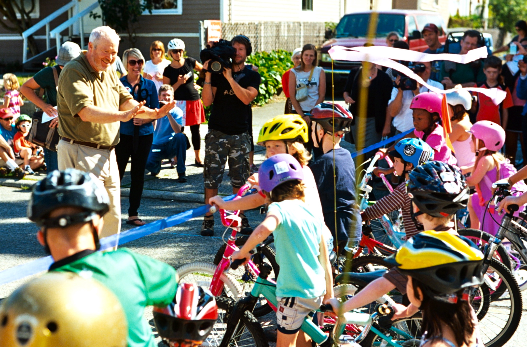 Seattle Mayor Mike McGinn at the ribbon cutting for the Ballard Neighborhood Greenway. Saturday September 7, 2013 2 pm to 5 pm PST